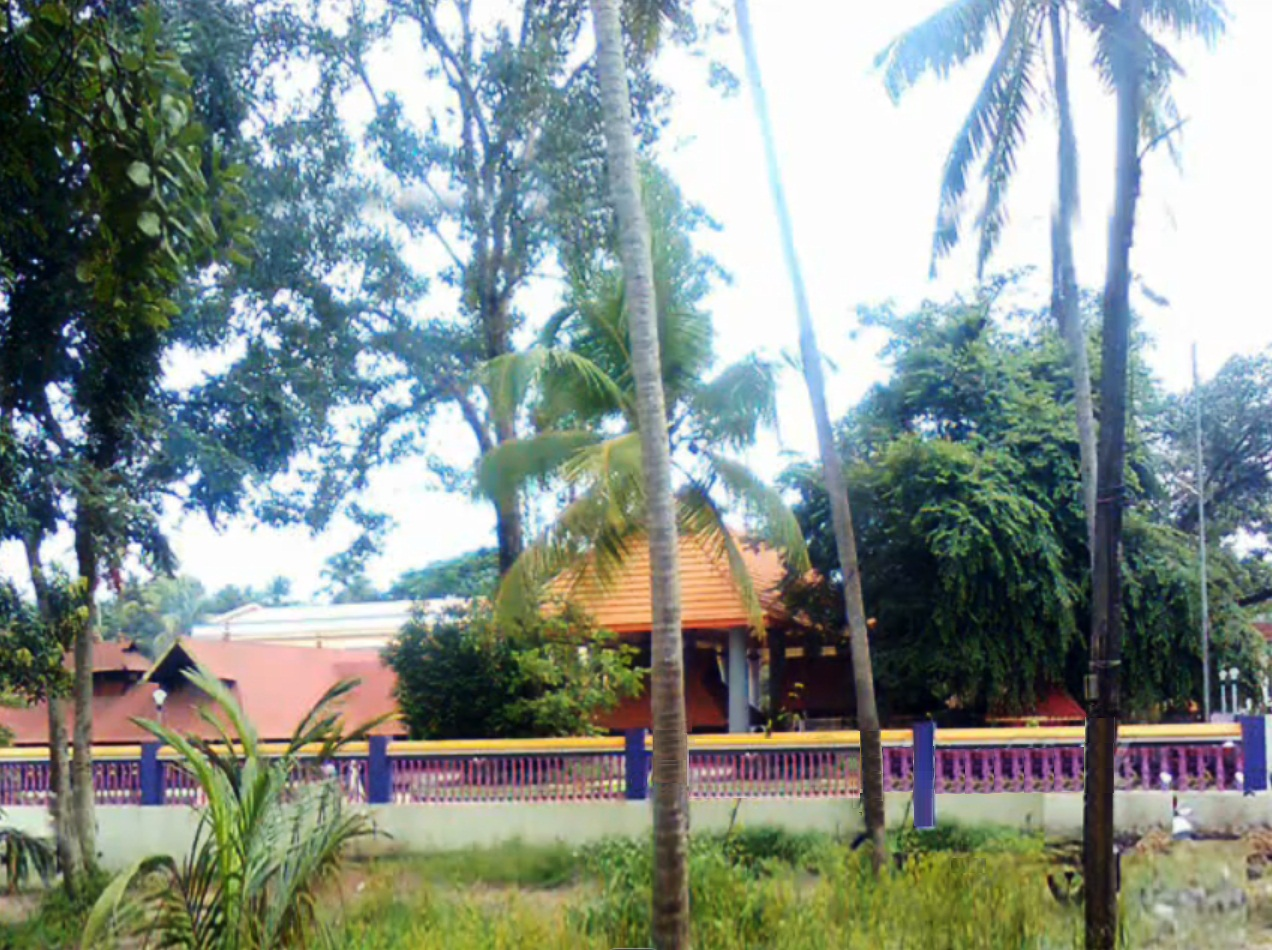 Velorvattom Siva Temple, Cherthala